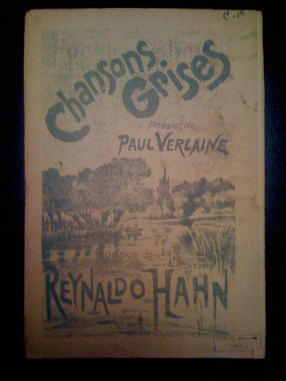 Front cover of the score "Les Chansons grises" by Reynaldo Hahn.